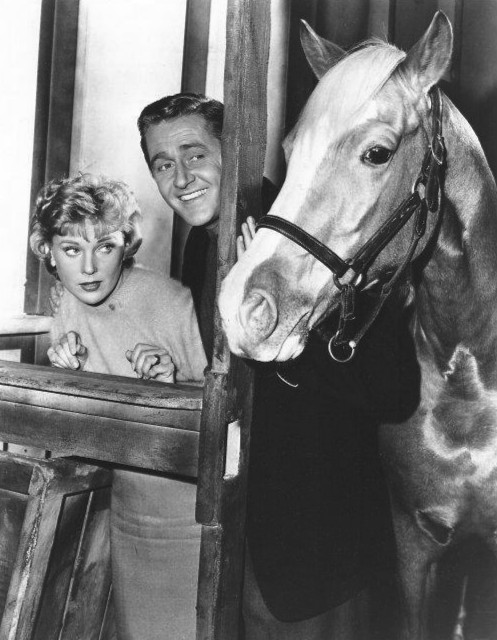 Photo of the main cast of the television program Mister Ed. From left-Connie Hines as Carole Post, Alan Young as Wilbur Post.